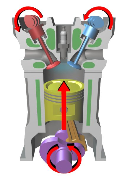 Illustration of the Four-stroke cycle.